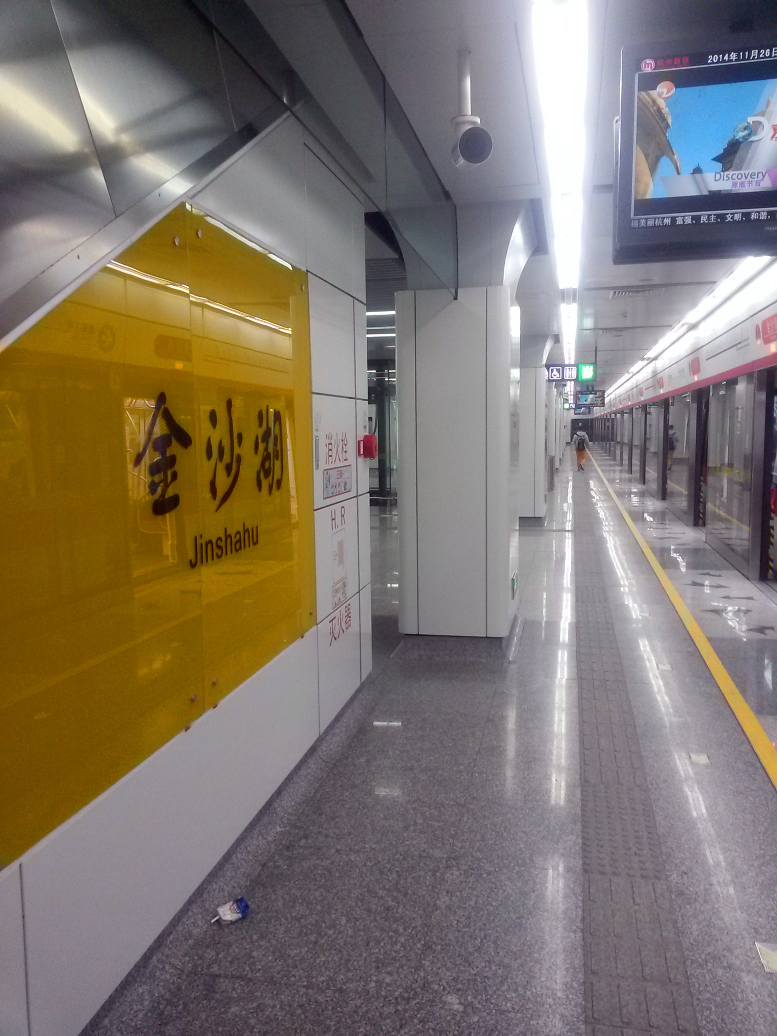 Jinshahu Station